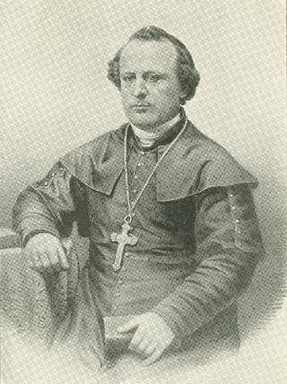 Pierre-Adolphe Pinsonnault Bishop of London and Sandwich